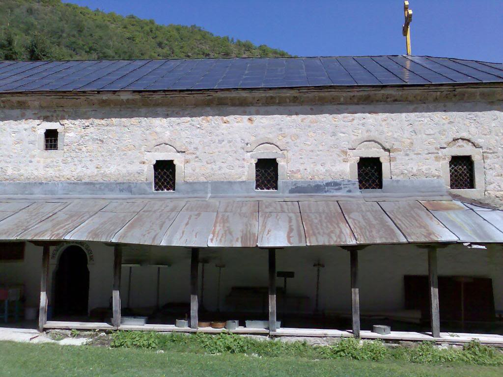 Village of Gari, Republic of Macedonia